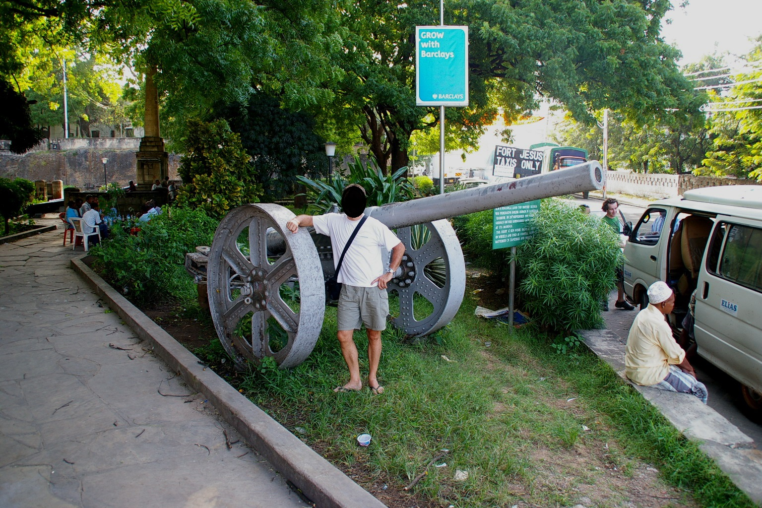 Dismounted gun from HMS Pegasus